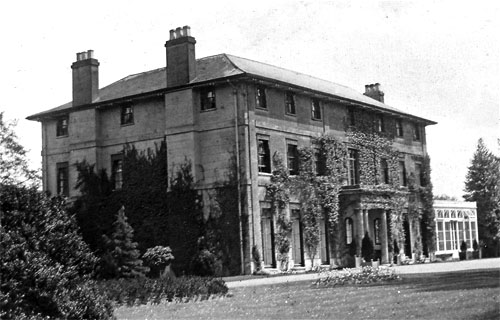 Bedfordshire's Caddington Hall, circa 1910. Demolished 1975